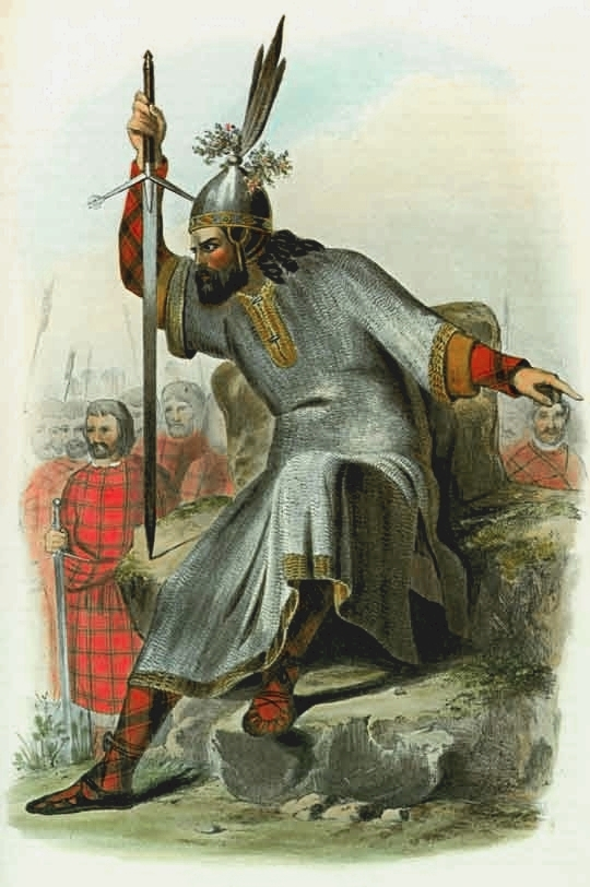 Source: James Logan, R. R. MacIan (ill.) The Clans of The Scottish Highlands. First published 1845, reprinted 1847. Creator: Robert Ronald MacIan (1803-1856).